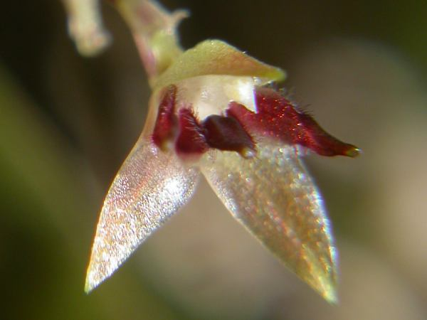 Anathallis